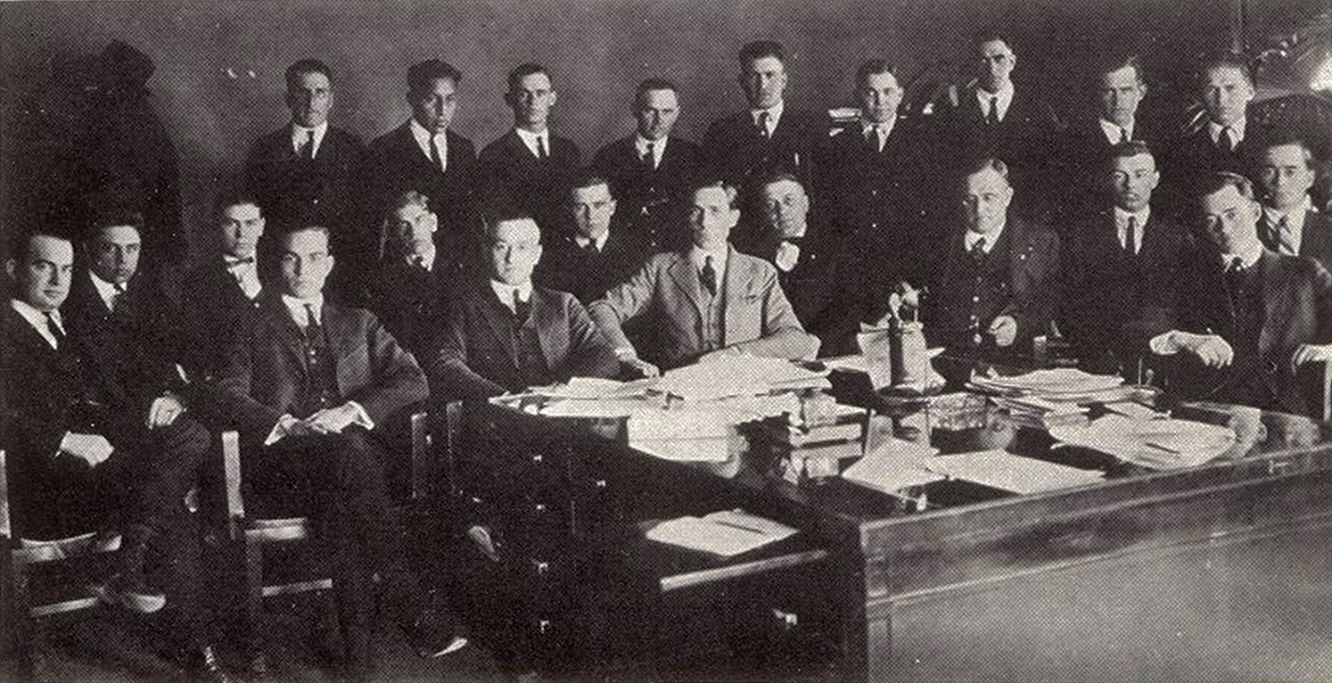 First National Convention of Kappa Kappa Psi, held on the campus of Oklahoma A&M College in Stillwater in 1922. Seated from left to right: Scott Squyres (Delta), Frank Hladkey (Alpha), Norman Smith (Alpha), Loren McKee (Alpha), Iron Hawthorne Nelson (Alpha), George Sadlo (Alpha Delegate), Dick Hurst (Alpha), E. E. Sumans (Delta Delegate), Bohumil Makovsky (Alpha), Hilton Ira Jones (Alpha), Arthur Harvey (Alpha), William A. Scroggs (Alpha), Asher Hendrickson (Alpha) Standing from left to right: Charles Folk (Alpha), T.W. Dailey (Alpha), Dean Dale (Alpha), Gustav Bieberdorf (Alpha), Paul Adams (Alpha), Gilbert Isenberg (Alpha), E. Hollingshead (Alpha), Alden Sturgis (Alpha), Elmer Swim (Alpha)